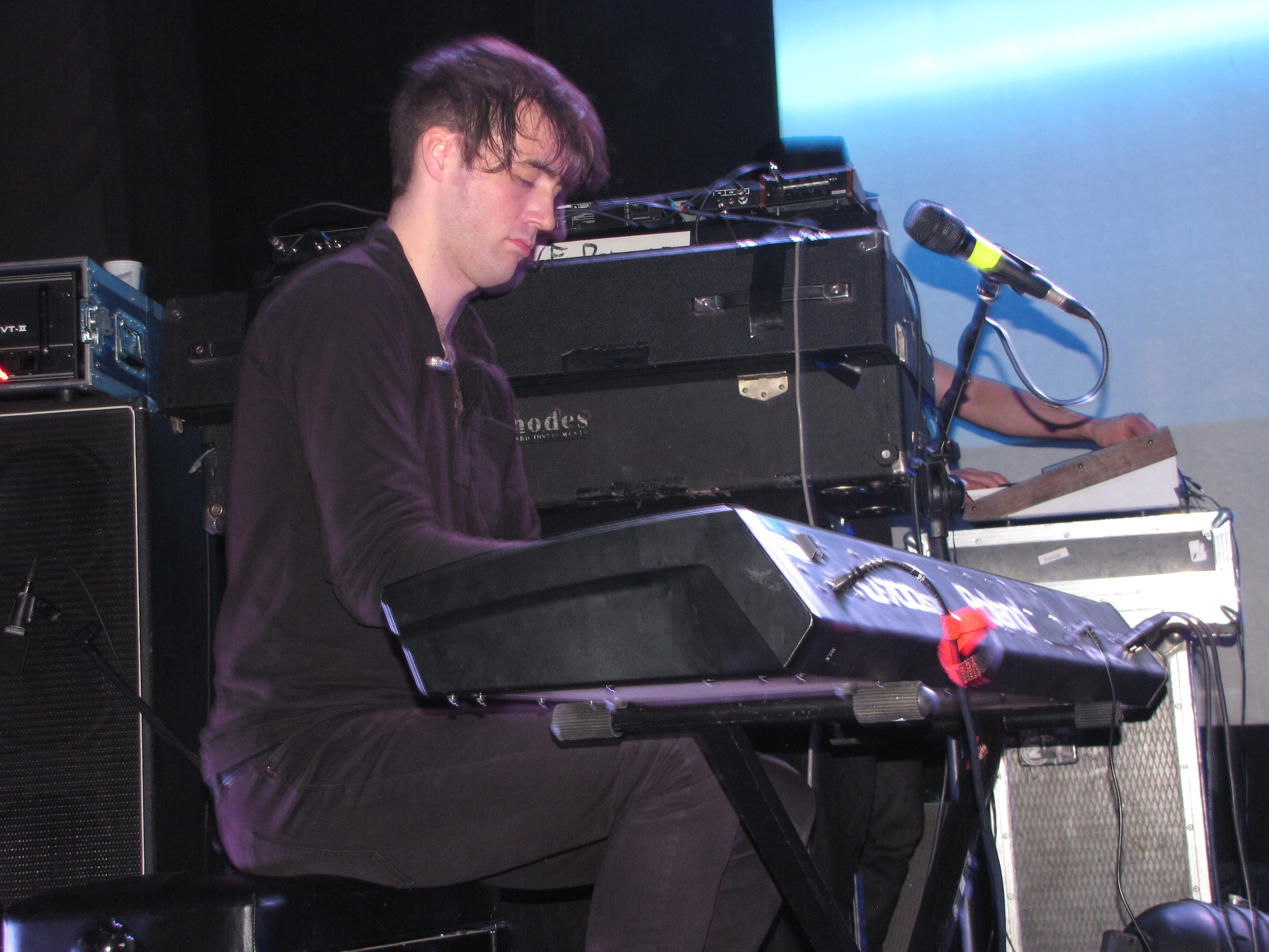 Ulver live at 2010.